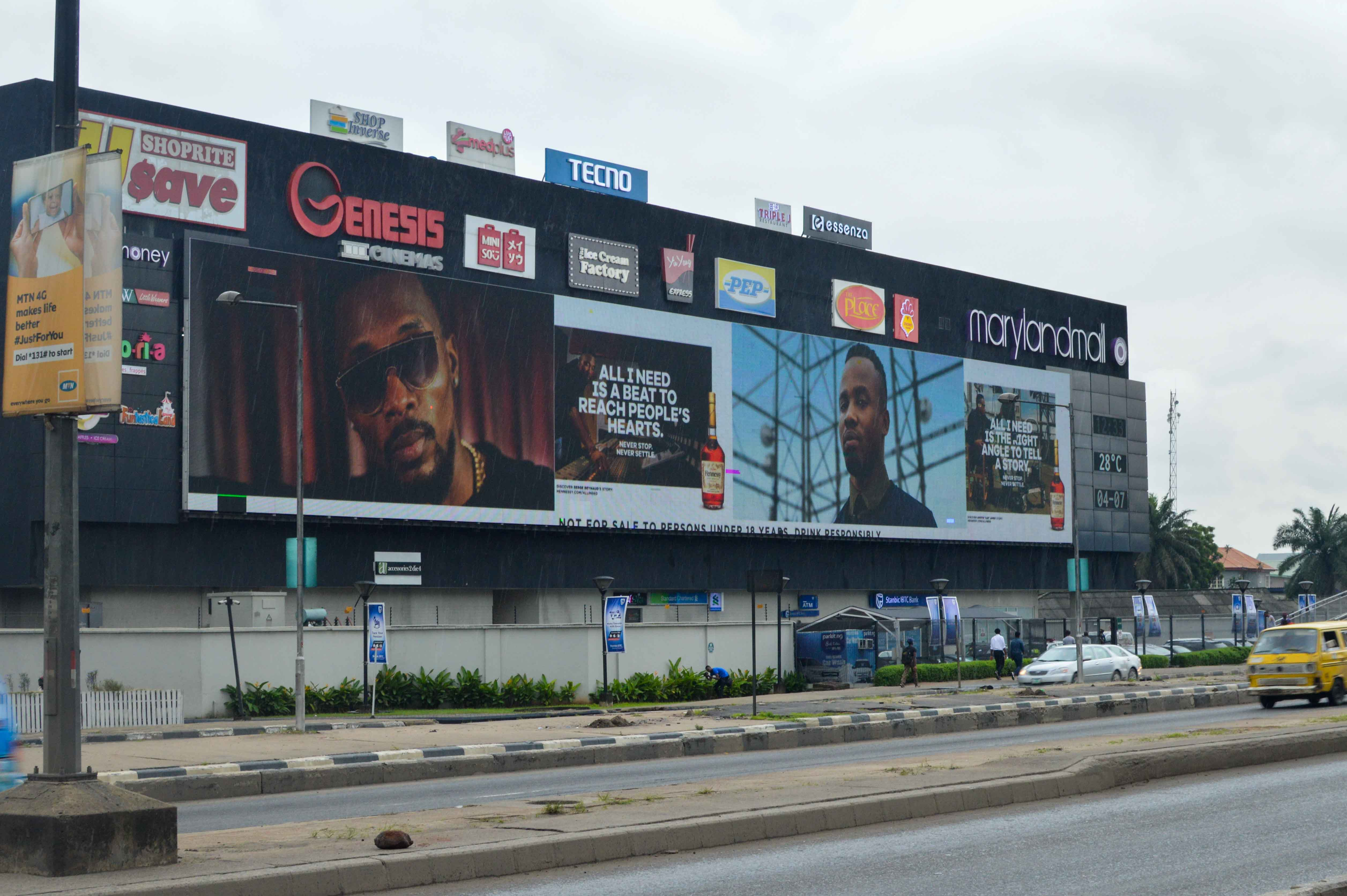 Cross section of Maryland mall